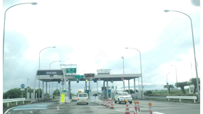 Kokubu Interchange